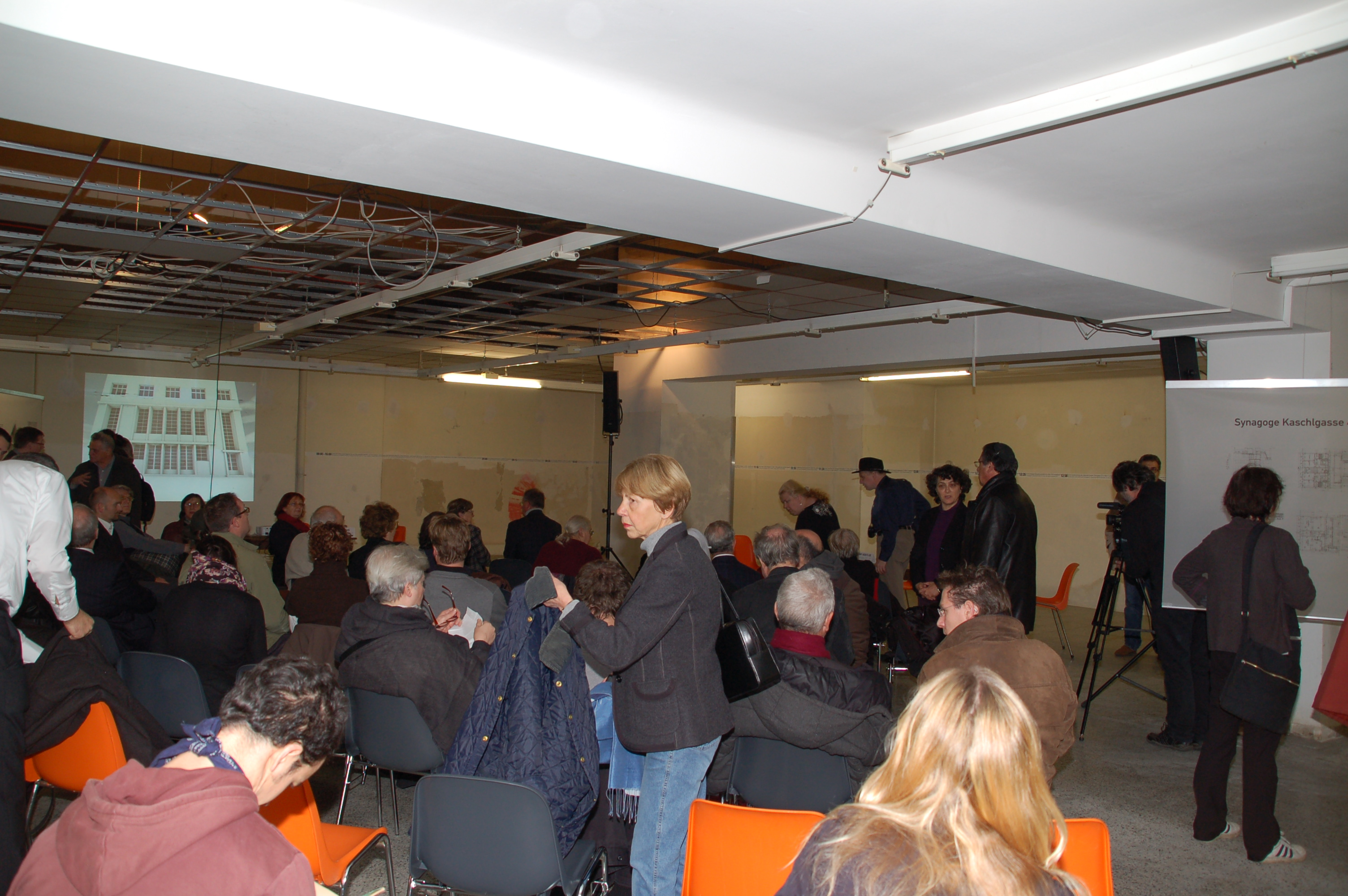 Synagoge Kaschlgasse Reichspogromnacht VWI